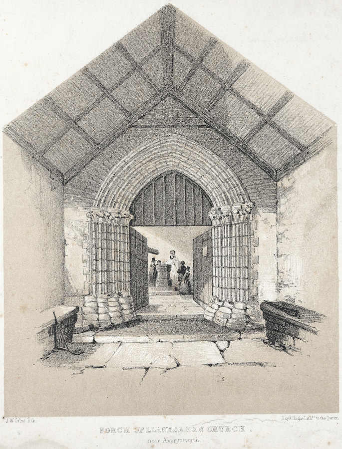 The porch and entrance to Llanbadarn Fawr church. Through doorway it shows priest adminstrating holy baptism at the font 1860